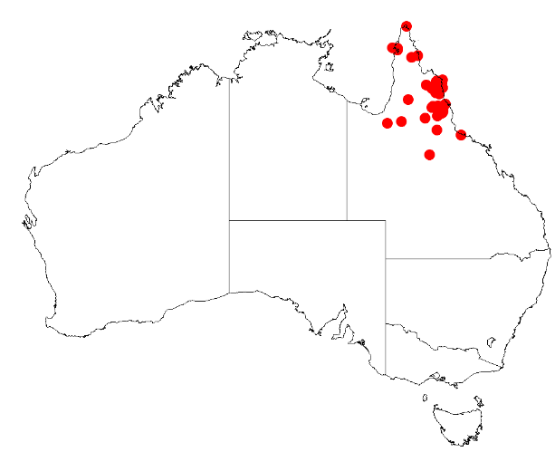 Acacia leptoloba Occurrence data from Australasia Virtual Herbarium downloaded from on 8 December 2018